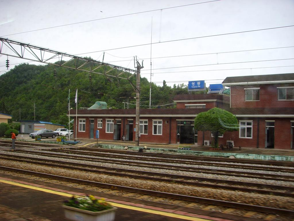 Taebaek Line Ssangnyong Station